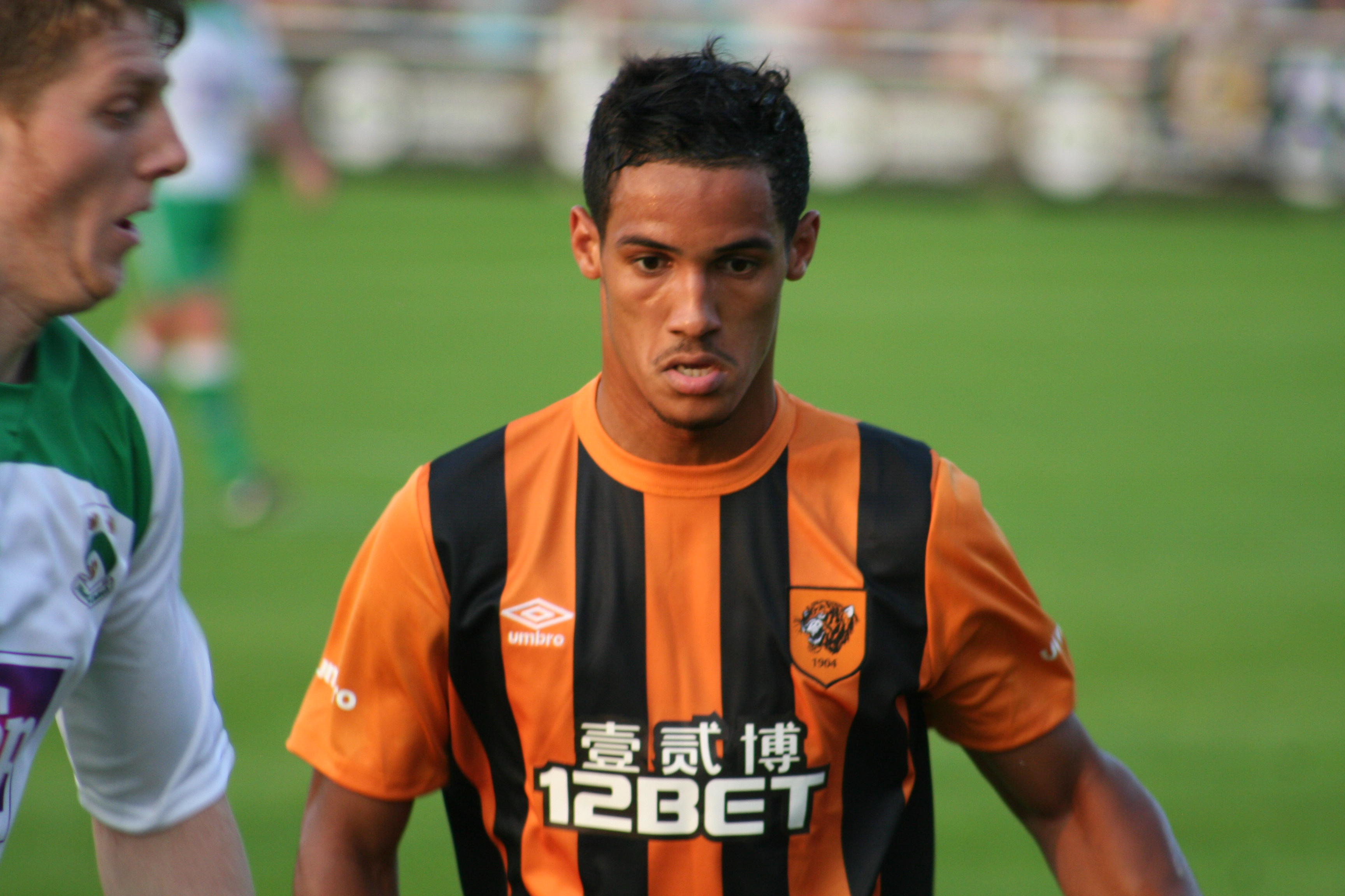 Tom Ince playing for Hull City AFC